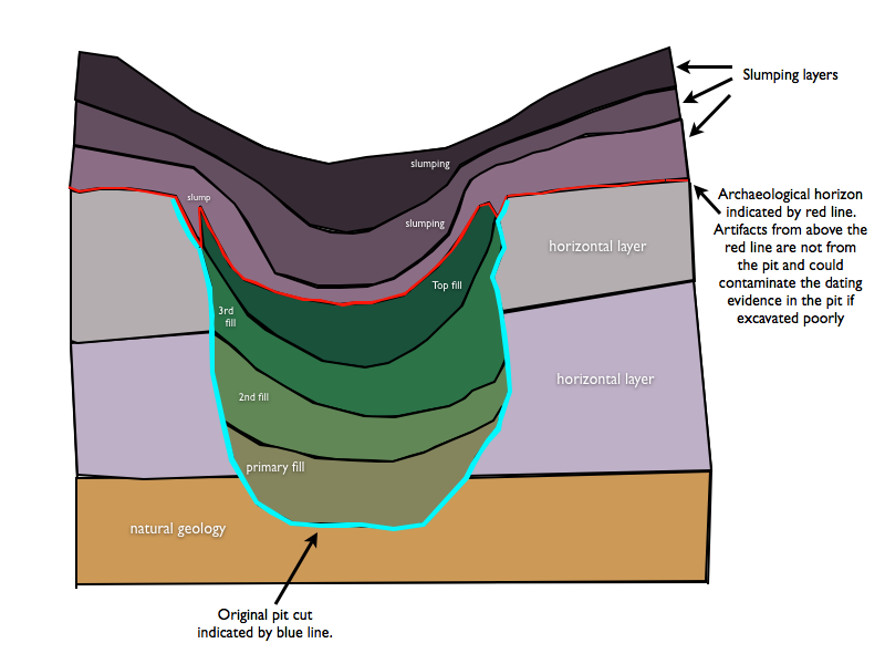 graphic